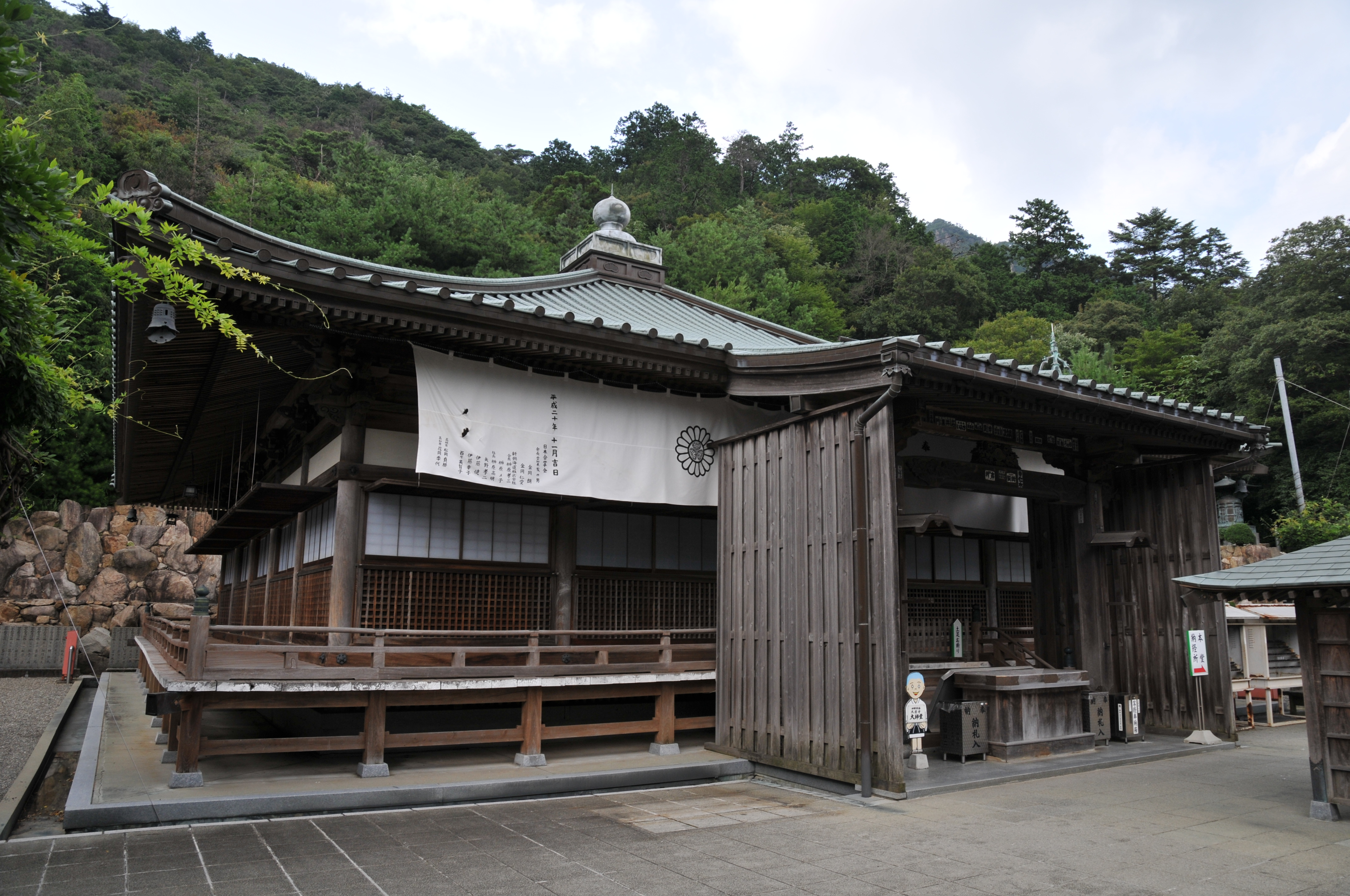 Daishi-dō, Ōkubo-ji